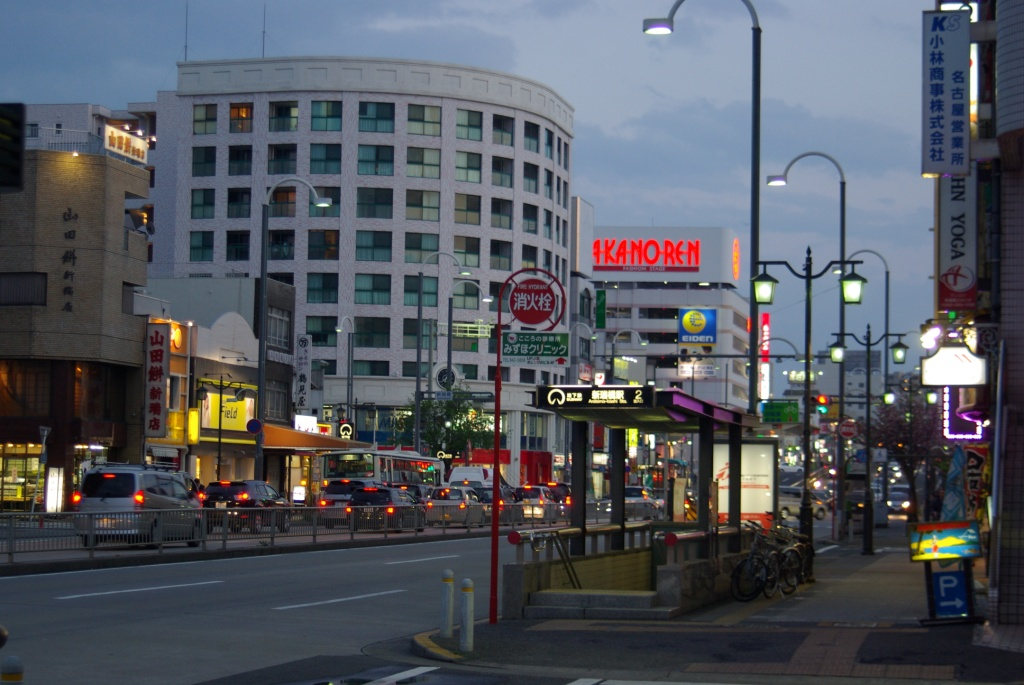 Aratama